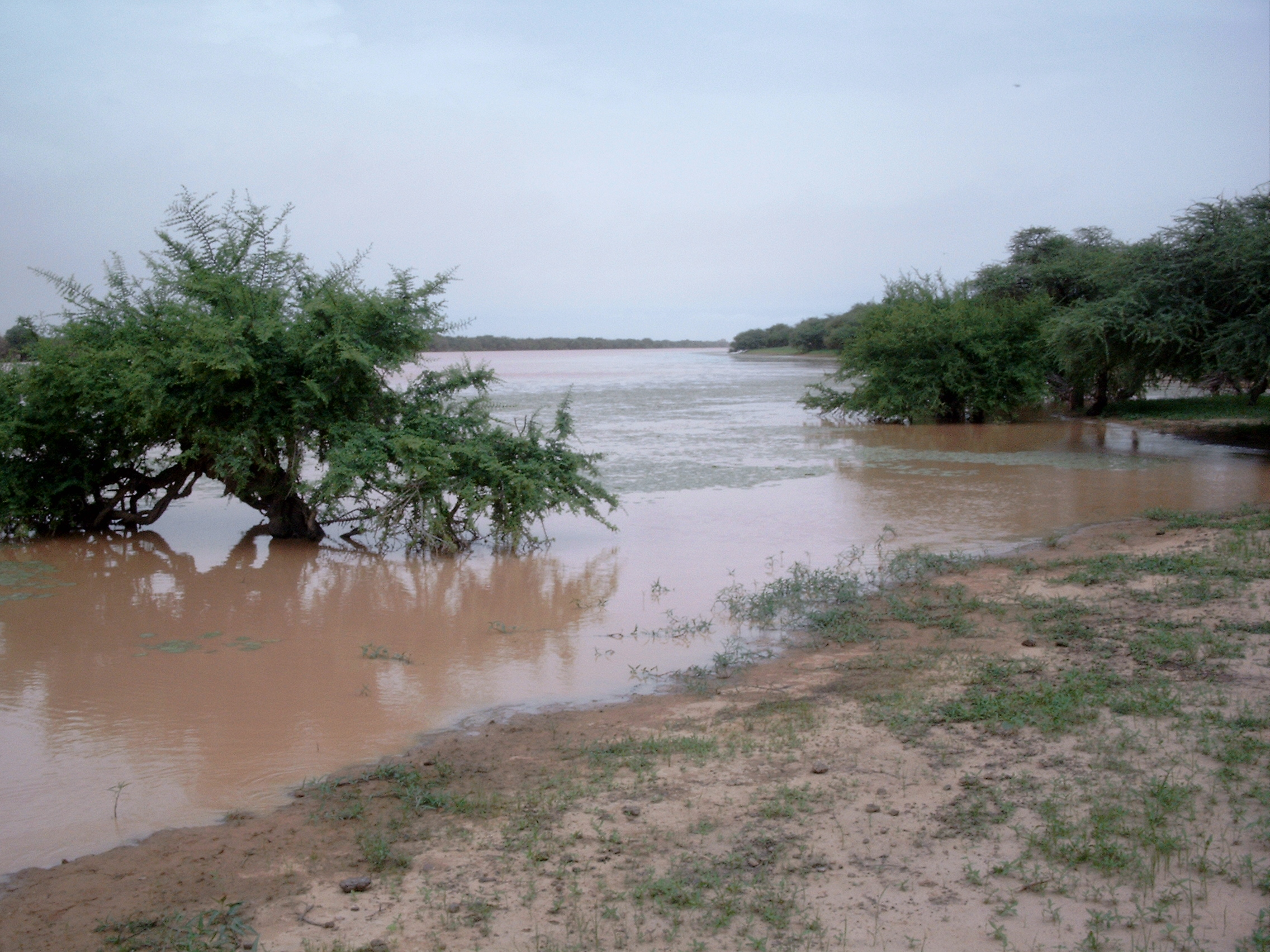 Béli river in the rainy season near Fadar-Fadar, Burkina Faso